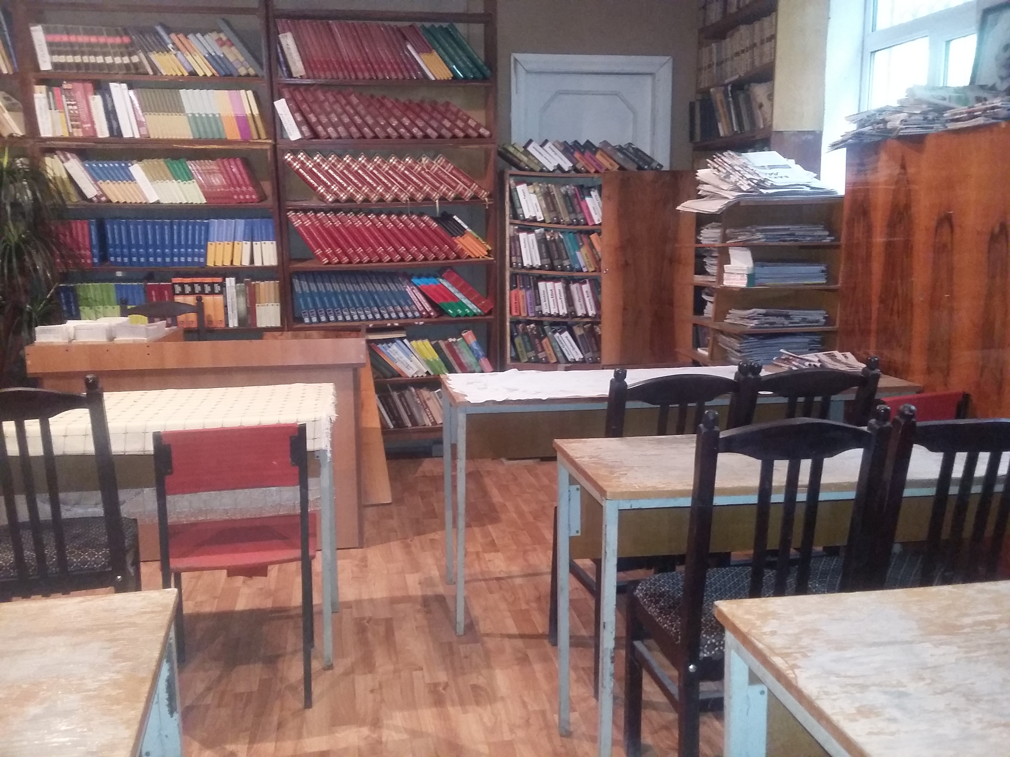 readerholl